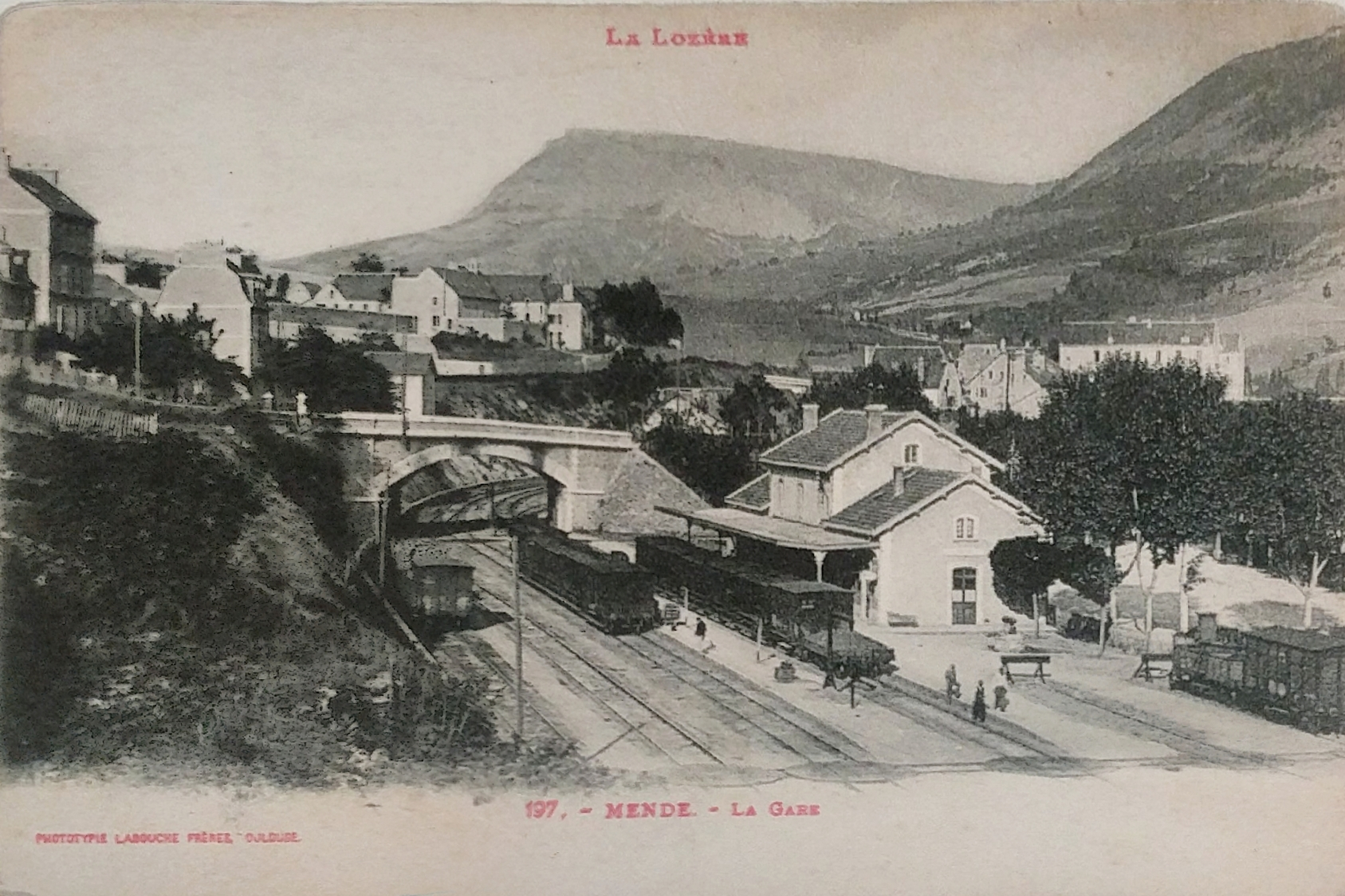 Mende train station